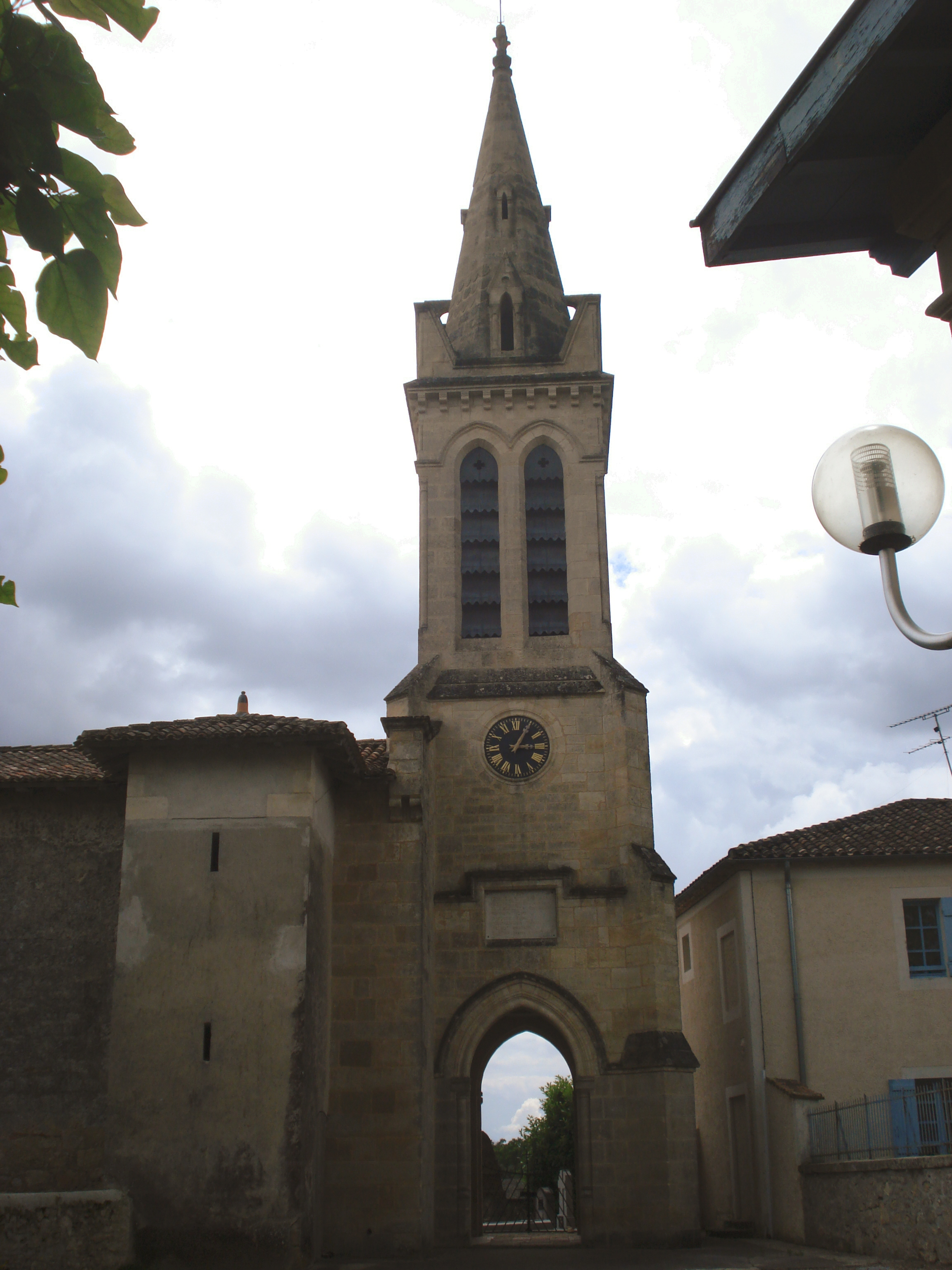 Bernos-Beaulac (Gironde Fr) church of Bernos